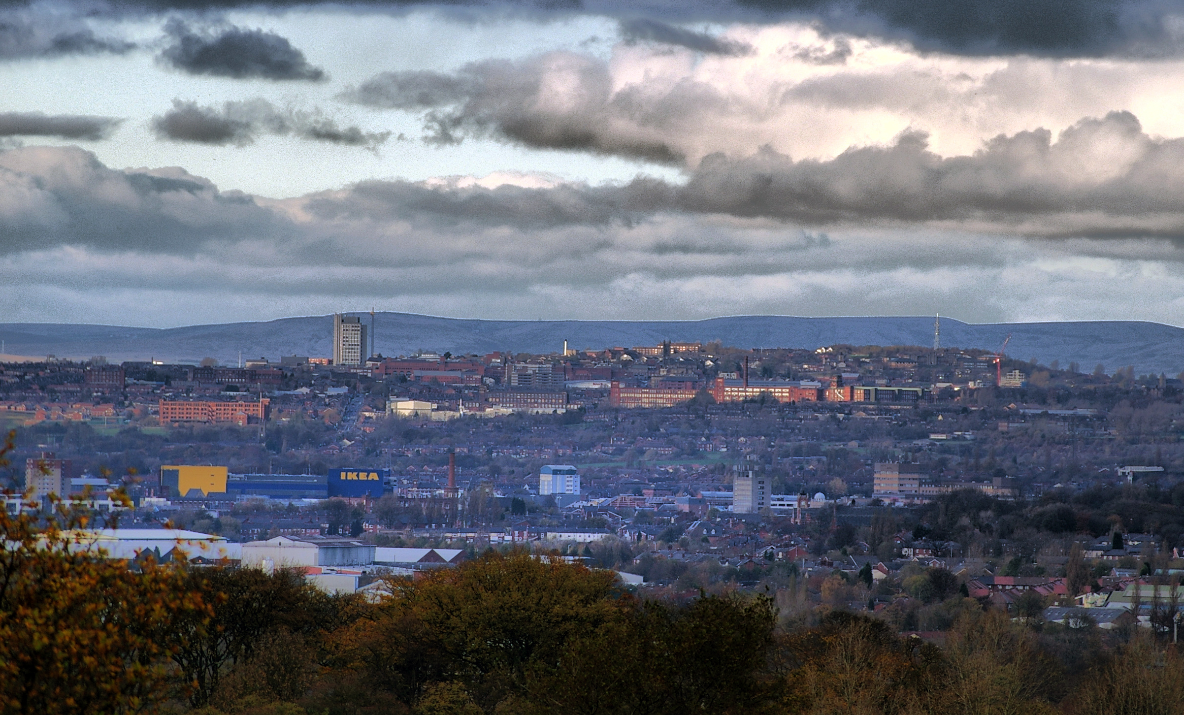 Oldham and Ashton-under-Lyne seen from Werneth Low, all of which are in Greater Manchester, England. Oldham is the hill top settlement marked by the grey tower block (i.e. the Civic Centre). Ashton-under-Lyne is highlighted by the vivid yellow IKEA store, and spans the valley bottom below Oldham in the mid-foreground. The Pennines are on the horizon.